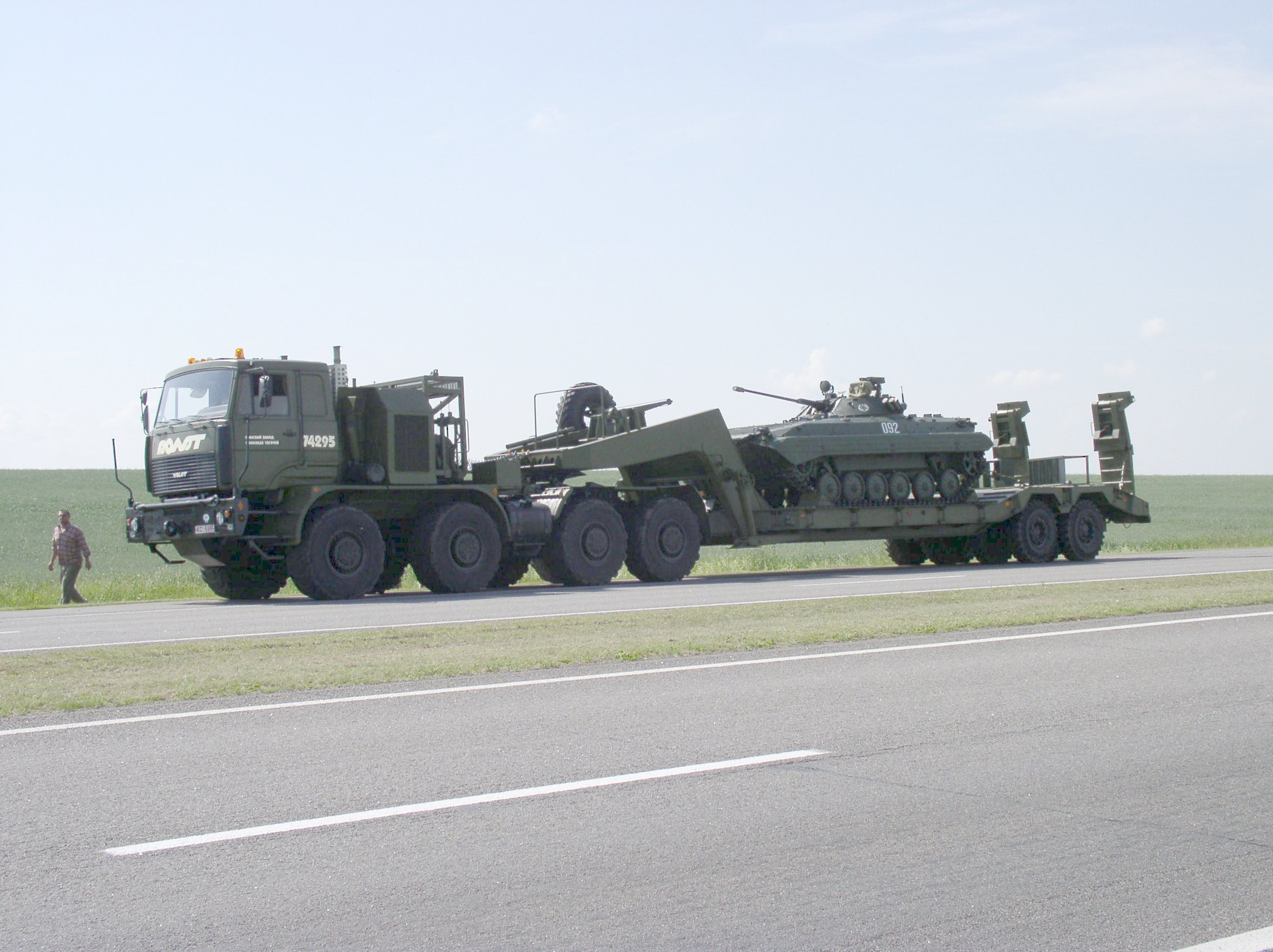 Tractor lorry Volat MZKT-742952 + 93783 transporting BMP-2. Belarus